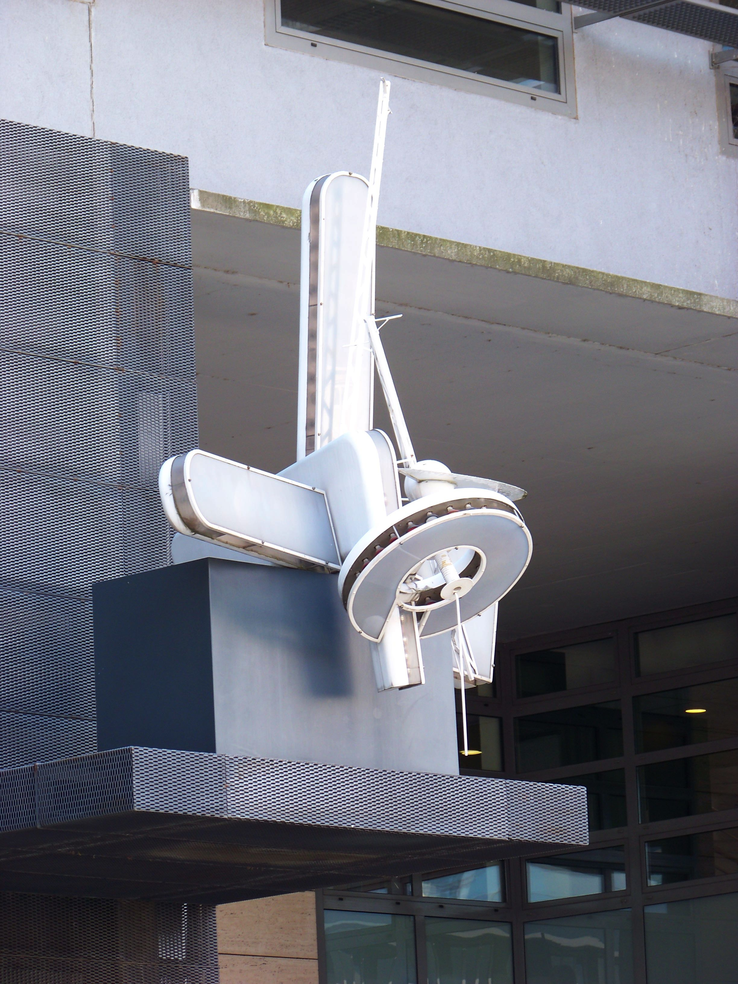 Prague-Vršovice, the Czech Republic. Na hroudě 1492/4, PRE, a sculpture on the building.